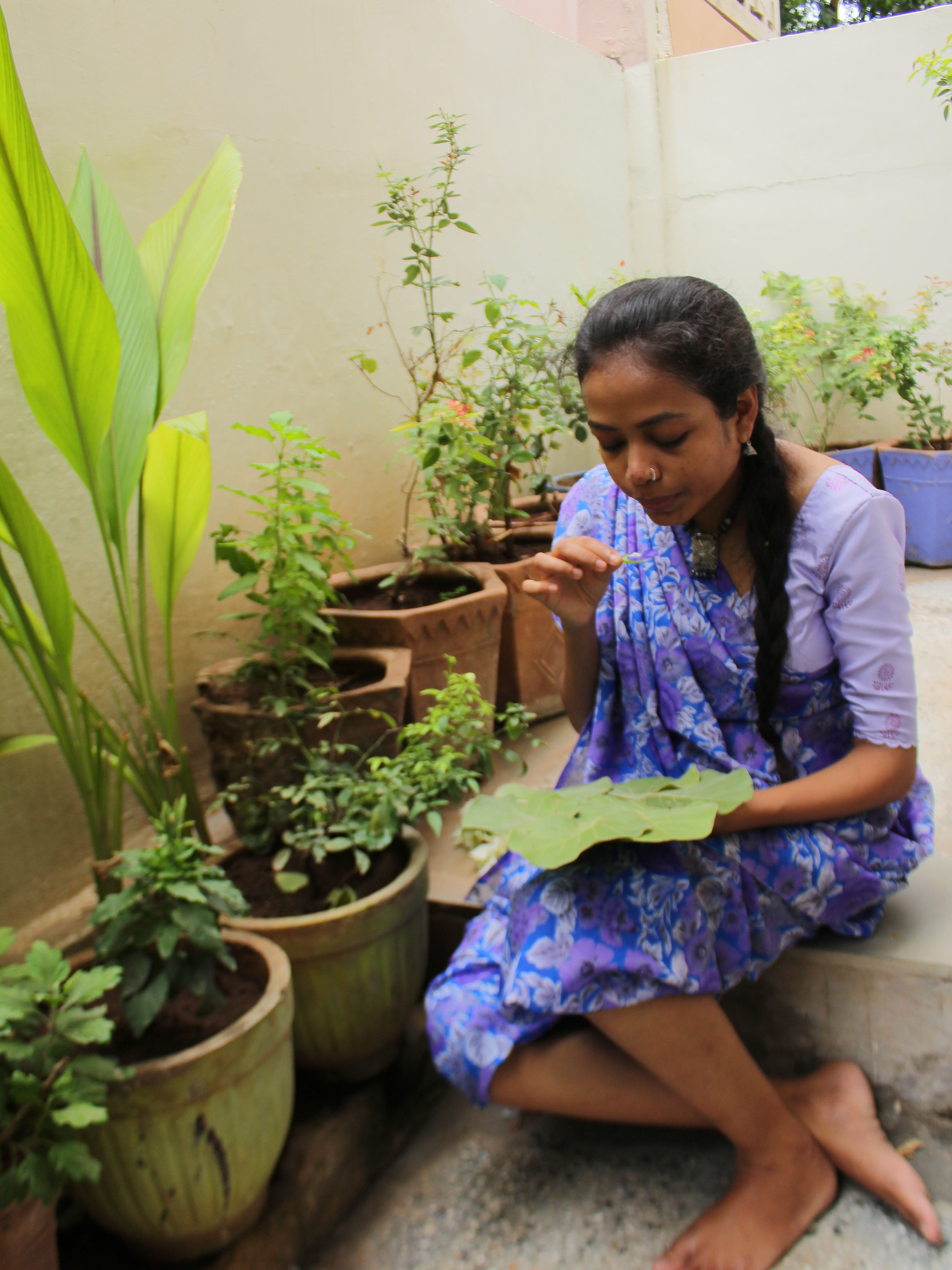 Dhodia traditional dress